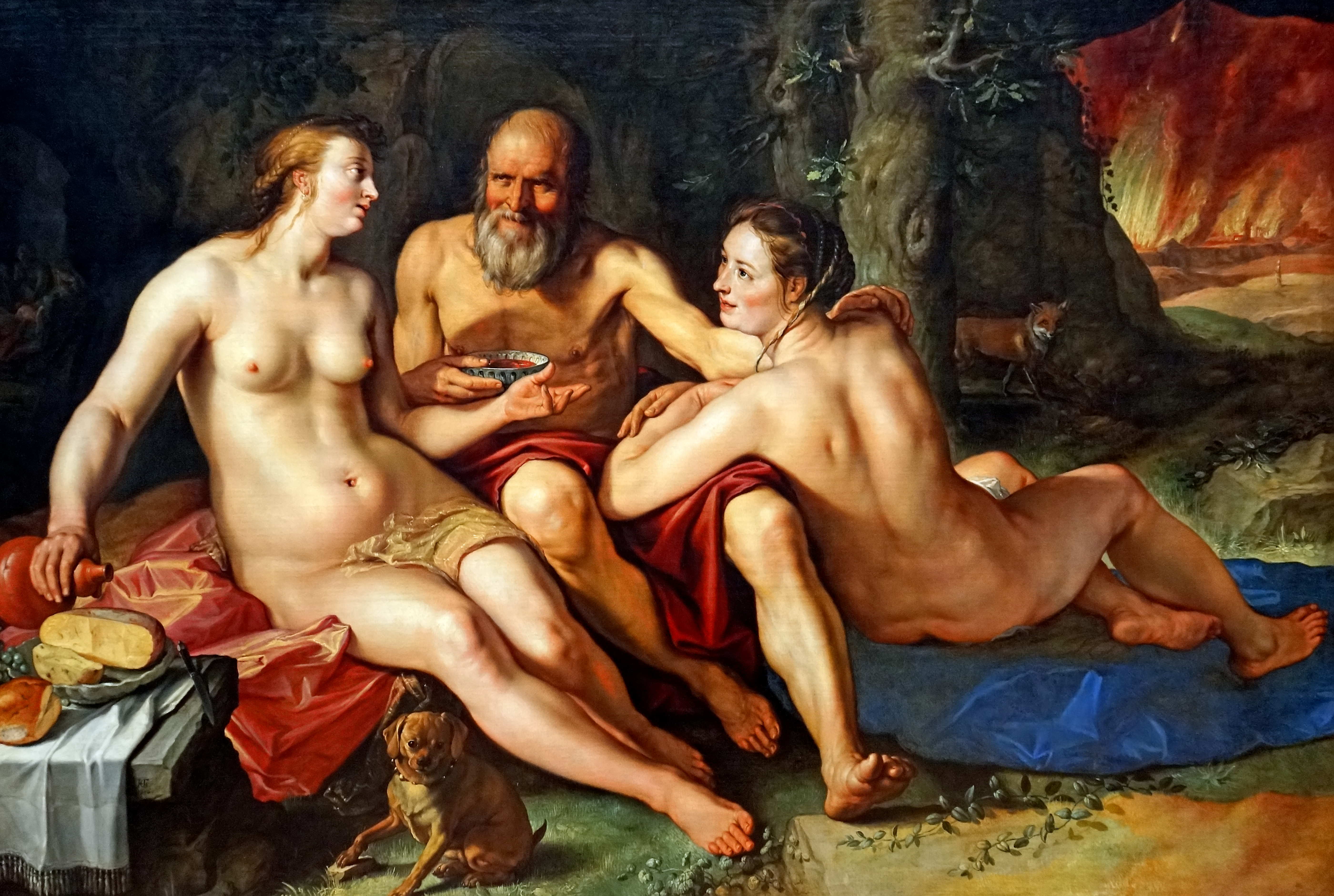 PLEASE,NO invitations or self promotions, THEY WILL BE DELETED. My photos are FREE to use, just give me credit and it would be nice if you let me know, thanks. Lot and his Daughters, by Hendrick Goltzius, 1616. God decided to destroy the sinful city of Sodom. Afraid to be childless Lot's daughters got their father drunk and seduced him.